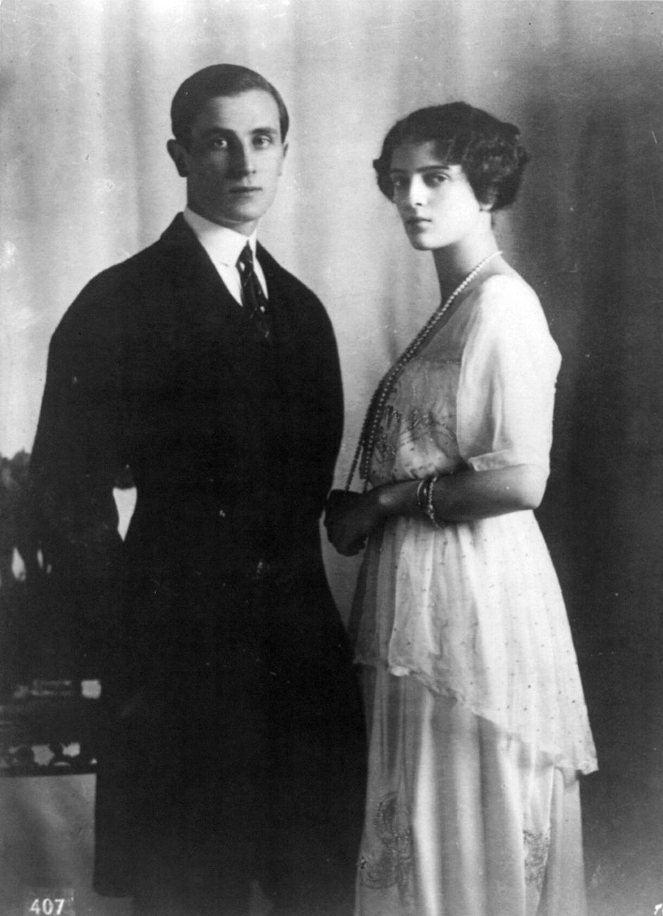 Felix Yusupov, one of the assassins of Grigori Rasputin, and his wife Princess Irina Alexandrovna of Russia.